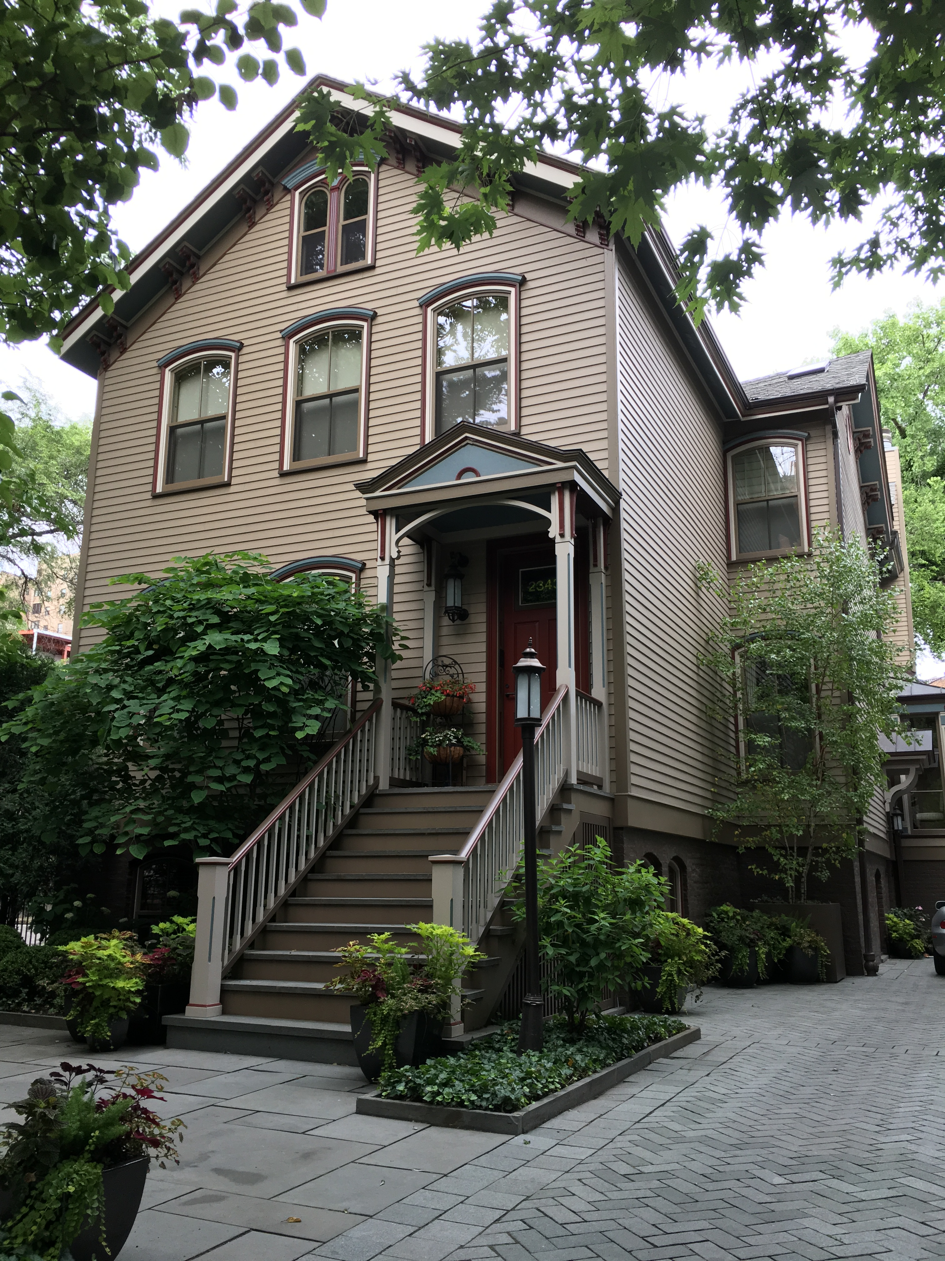 pre fire house in Chicago on Fullerton